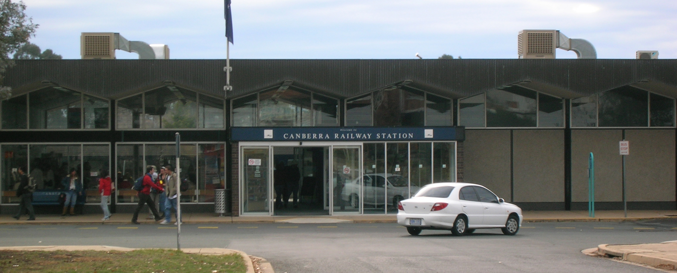 Canberra railway station front entrance.